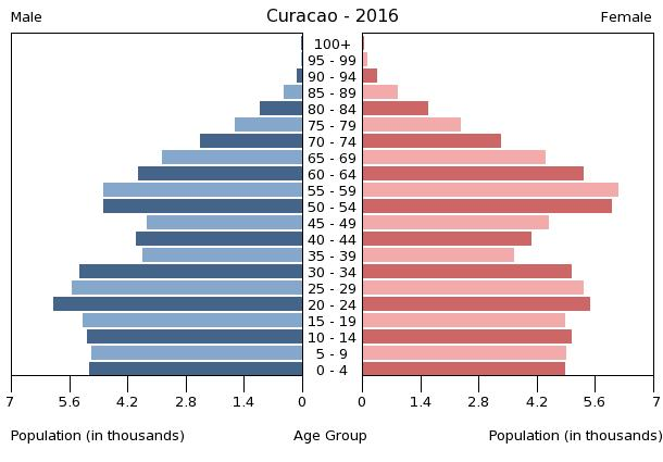 The population pyramid of Curacao illustrates the age and sex structure of population and may provide insights about political and social stability, as well as economic development. The population is distributed along the horizontal axis, with males shown on the left and females on the right. The male and female populations are broken down into 5-year age groups represented as horizontal bars along the vertical axis, with the youngest age groups at the bottom and the oldest at the top. The shape of the population pyramid gradually evolves over time based on fertility, mortality, and international migration trends.